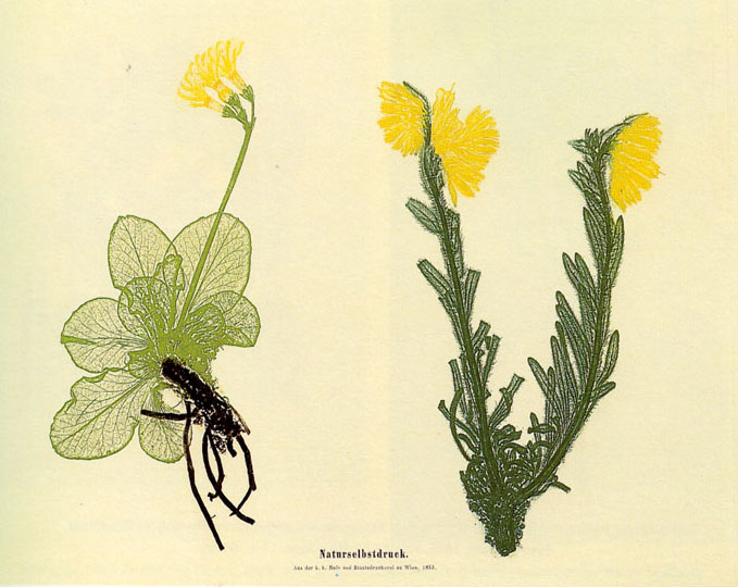 Digital reproduction of a work by a nature printing process (electrotyping), developed by the author.